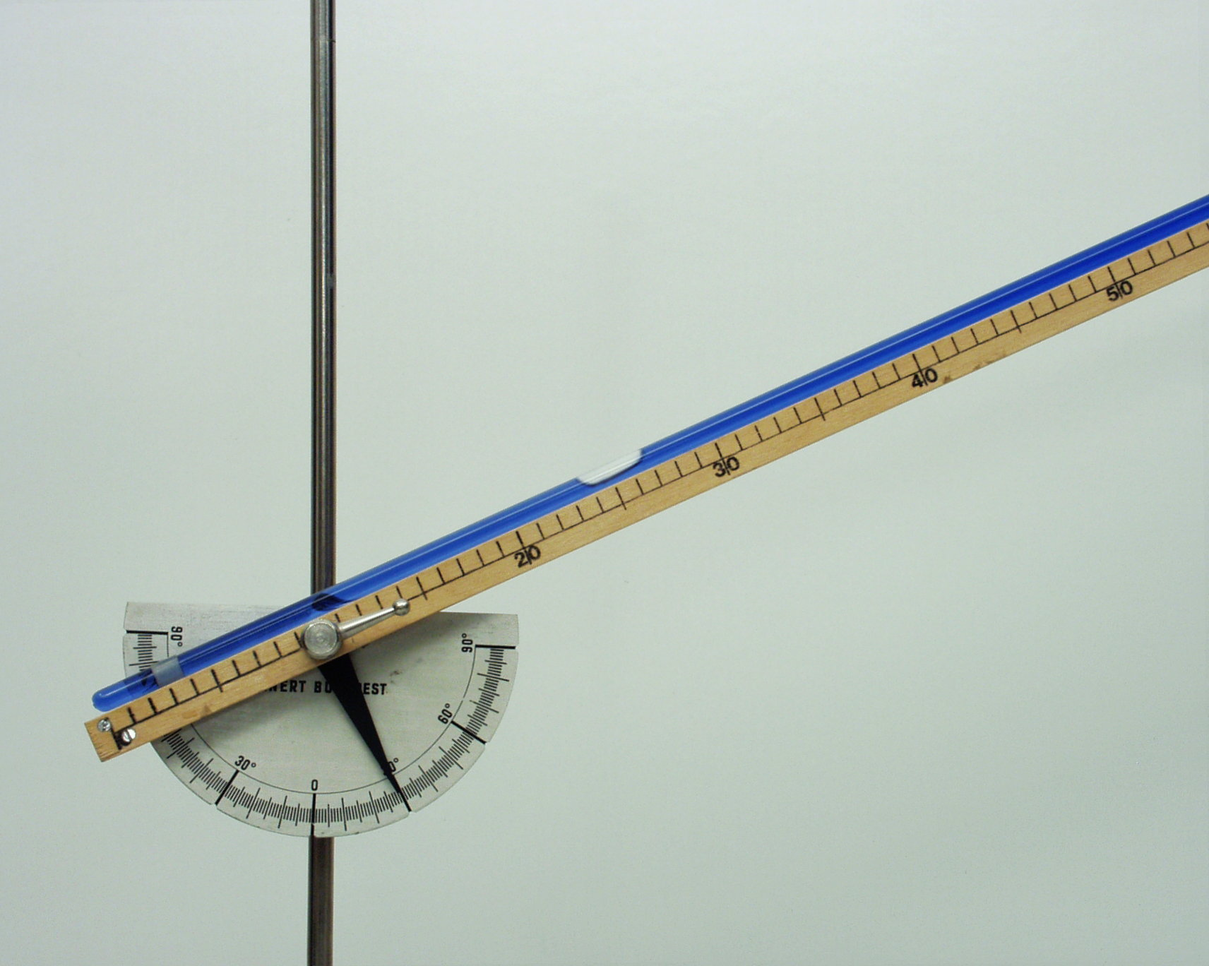 Mikola tube.